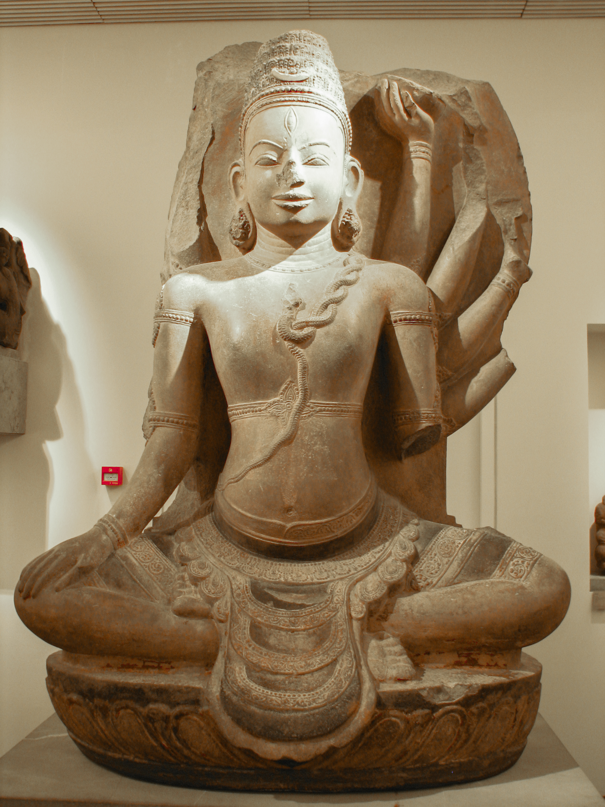 Siva statue, My Son, Vietnam. Property of Guimet Museum, Paris, France.